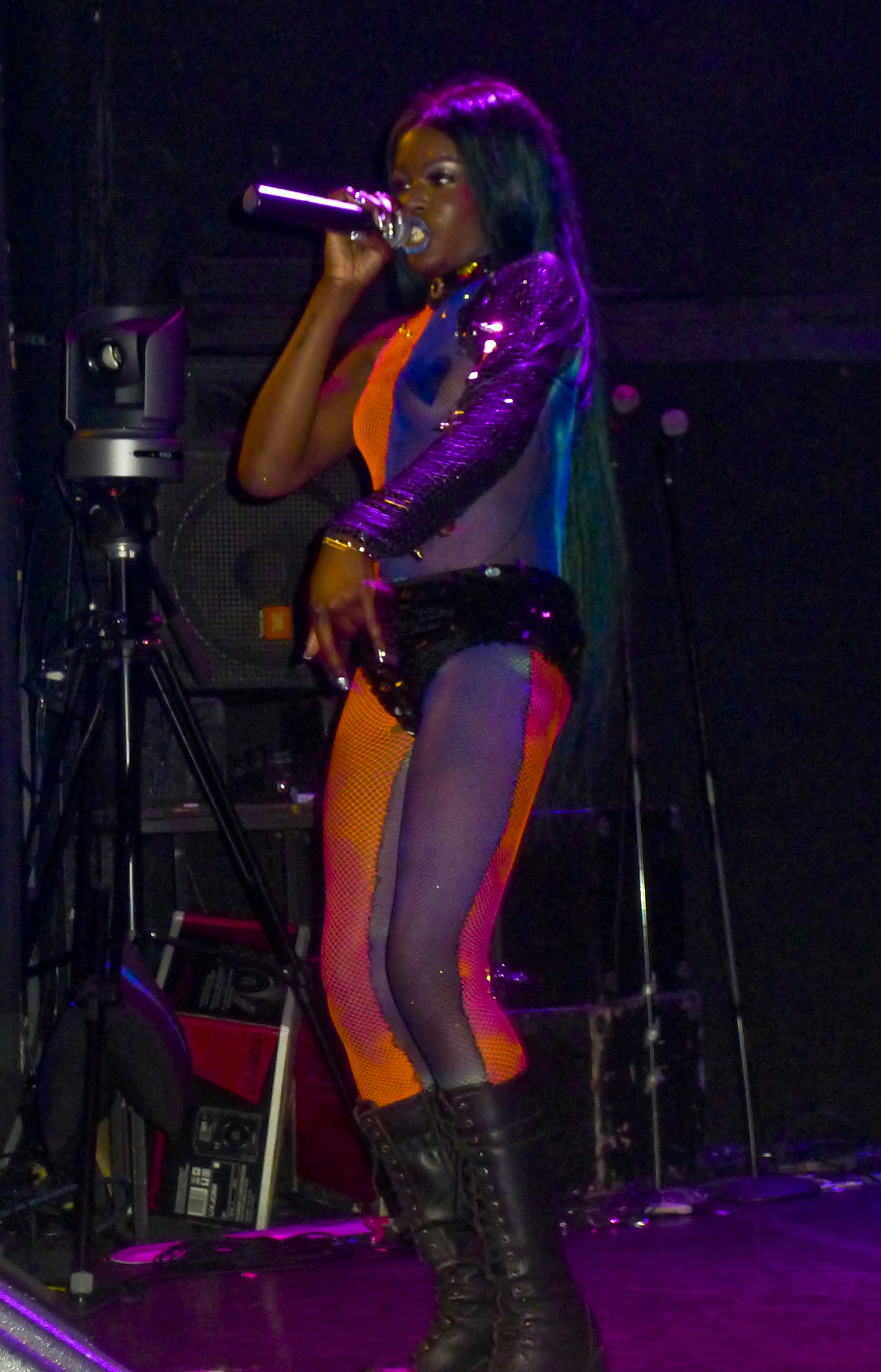 Azealia Banks performs at the Bowery Ballroom on June 4, 2012.